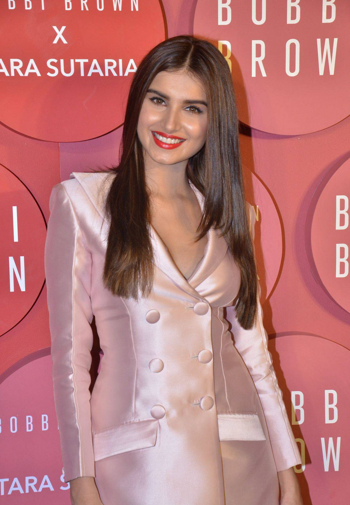 Tara Sutaria announced as the brand ambassador for Bobbi Brown in India.